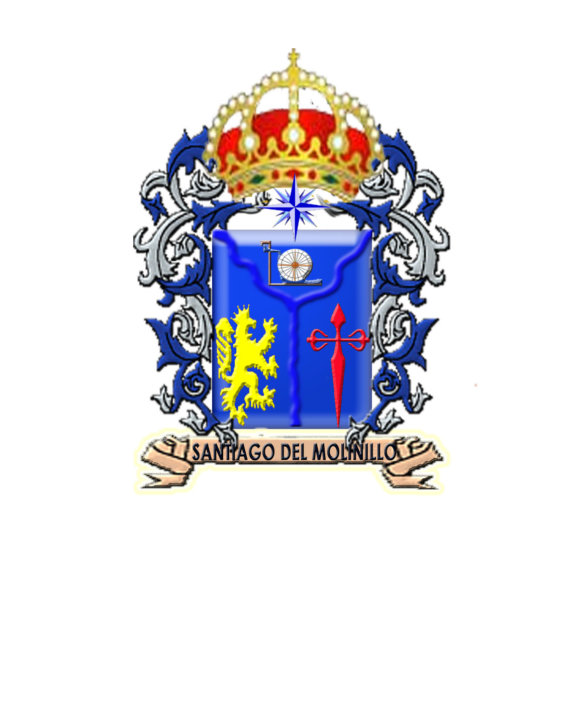 Coat of arms of Santiago del Molinillo, in the municipality of Las Omañas (León, Spain)